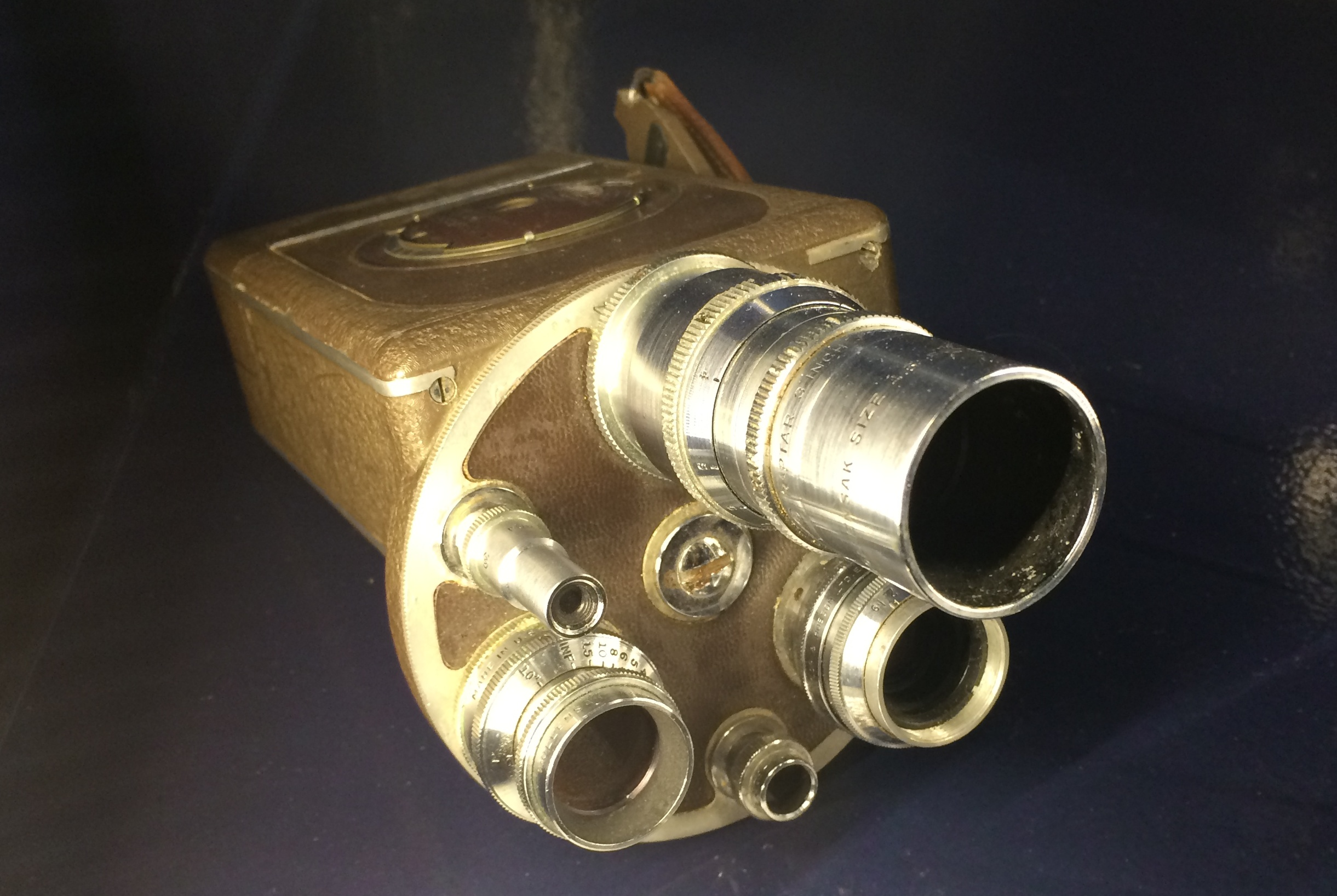 Photographic equipment used by the crew of Thor Heyerdahl's expedition "Kon Tiki" in the Pacific Ocean. Display from Kon Tiki Museum, Oslo.